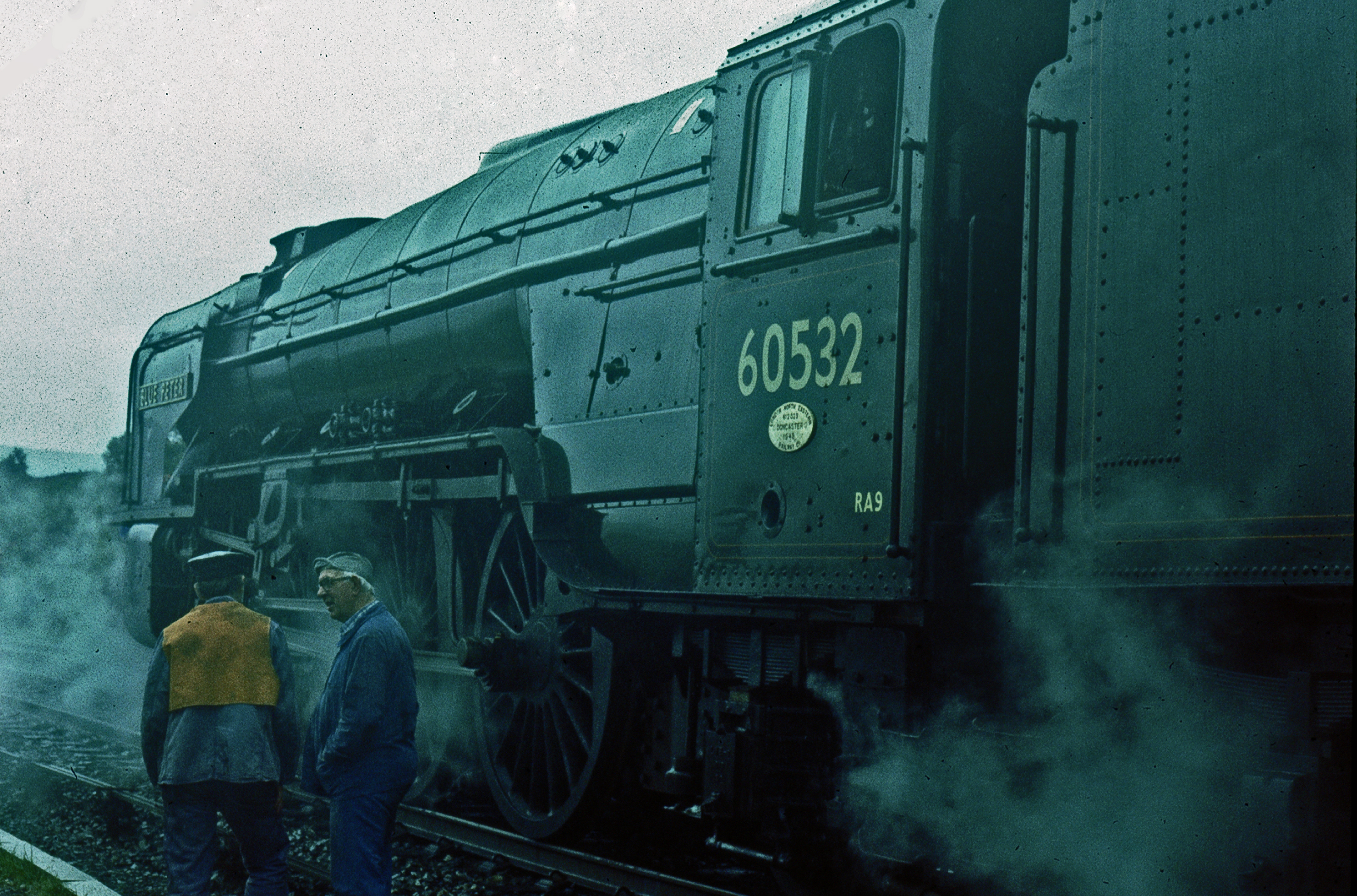 60532 Blue Peter is the sole survivor of 15 A2 class locomotives designed by Arthur H Peppercorn of the LNER.Built 25th March 1948 Here it reposes on a railtour in the mid 80s near Hellifeild.